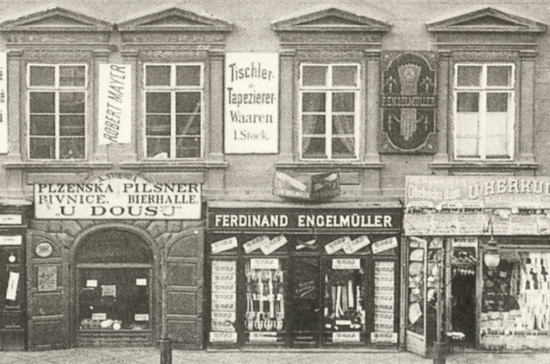 Engelmuller driving gloves store in Prague, Czech Republic